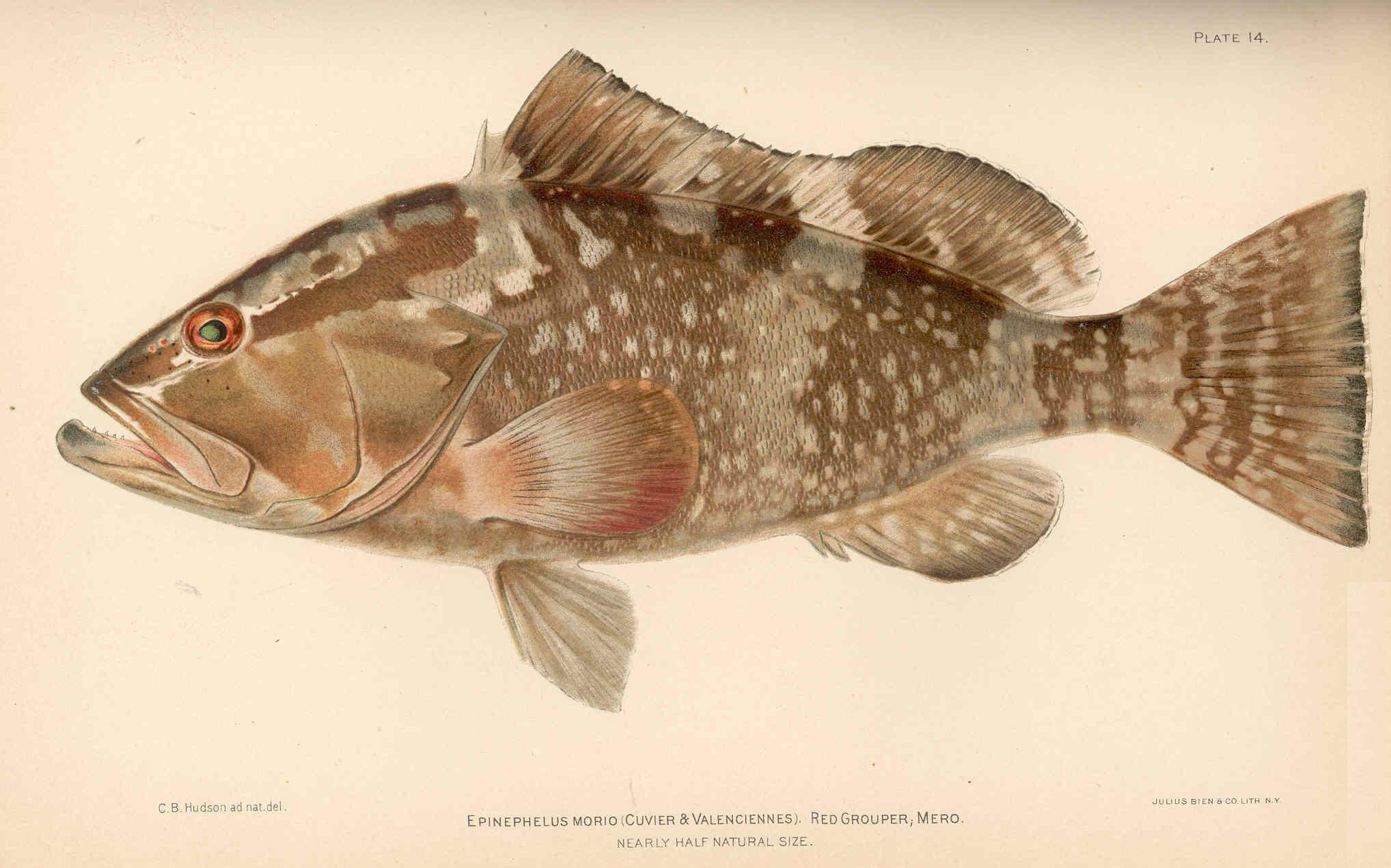 Epinephelus morio (Cuvier & Valenciennes). Red Grouper; Mero Subject: Red grouper, Epinephelus Tag: Fish